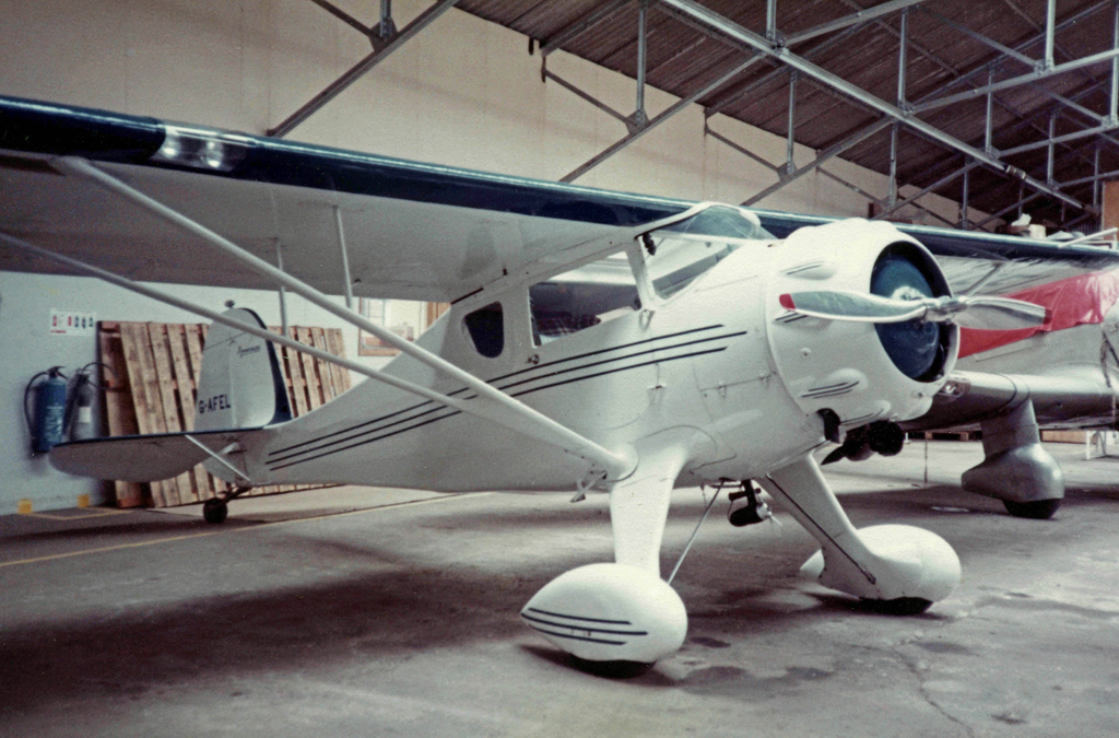 Monocoupe 90A G-AFEL at Biggin Hill aerodrome, Surrey, in 1982